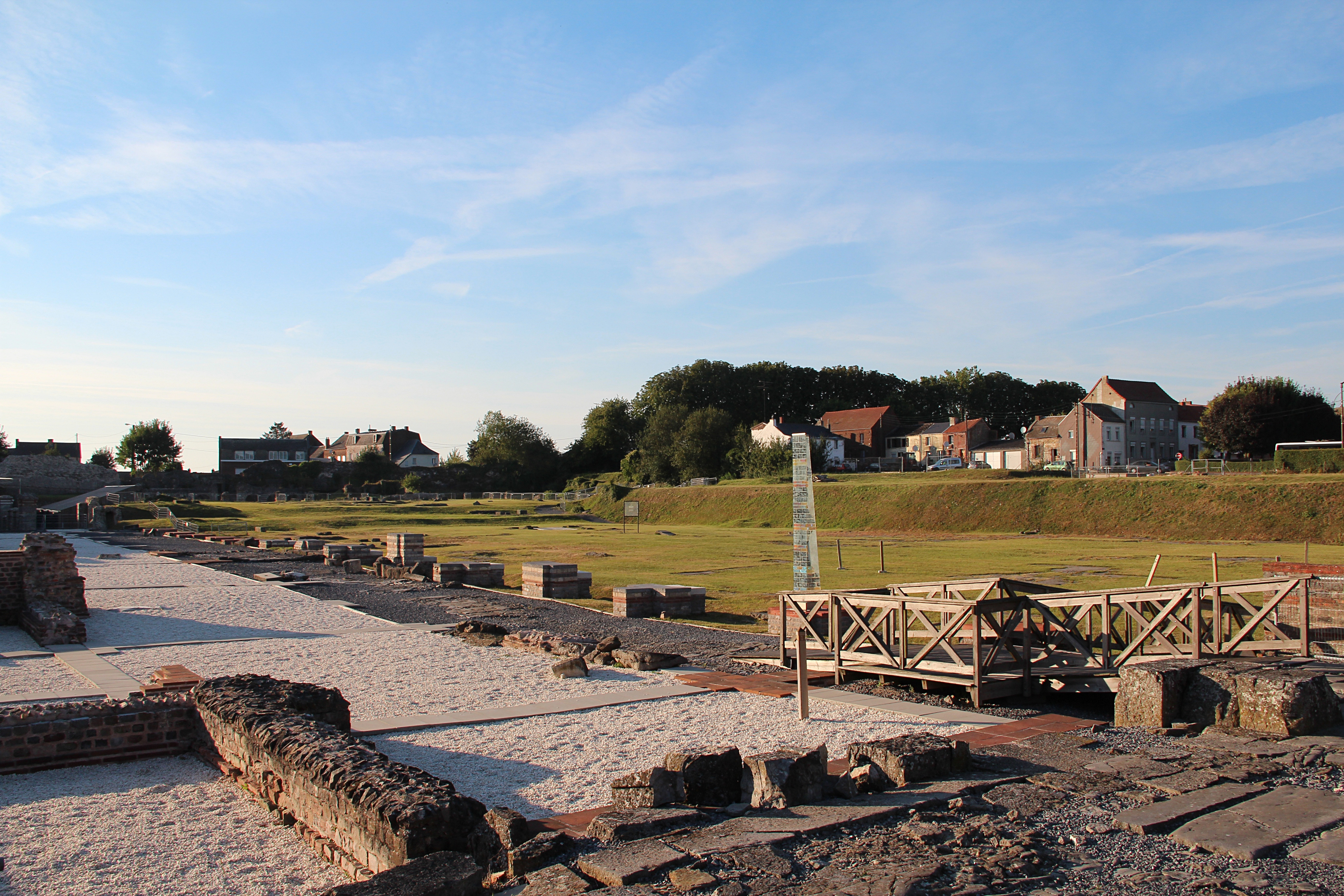 Vestiges of archaeological site of Bavay (Northern France).